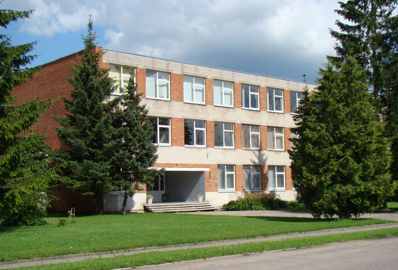 Sasnava primary school